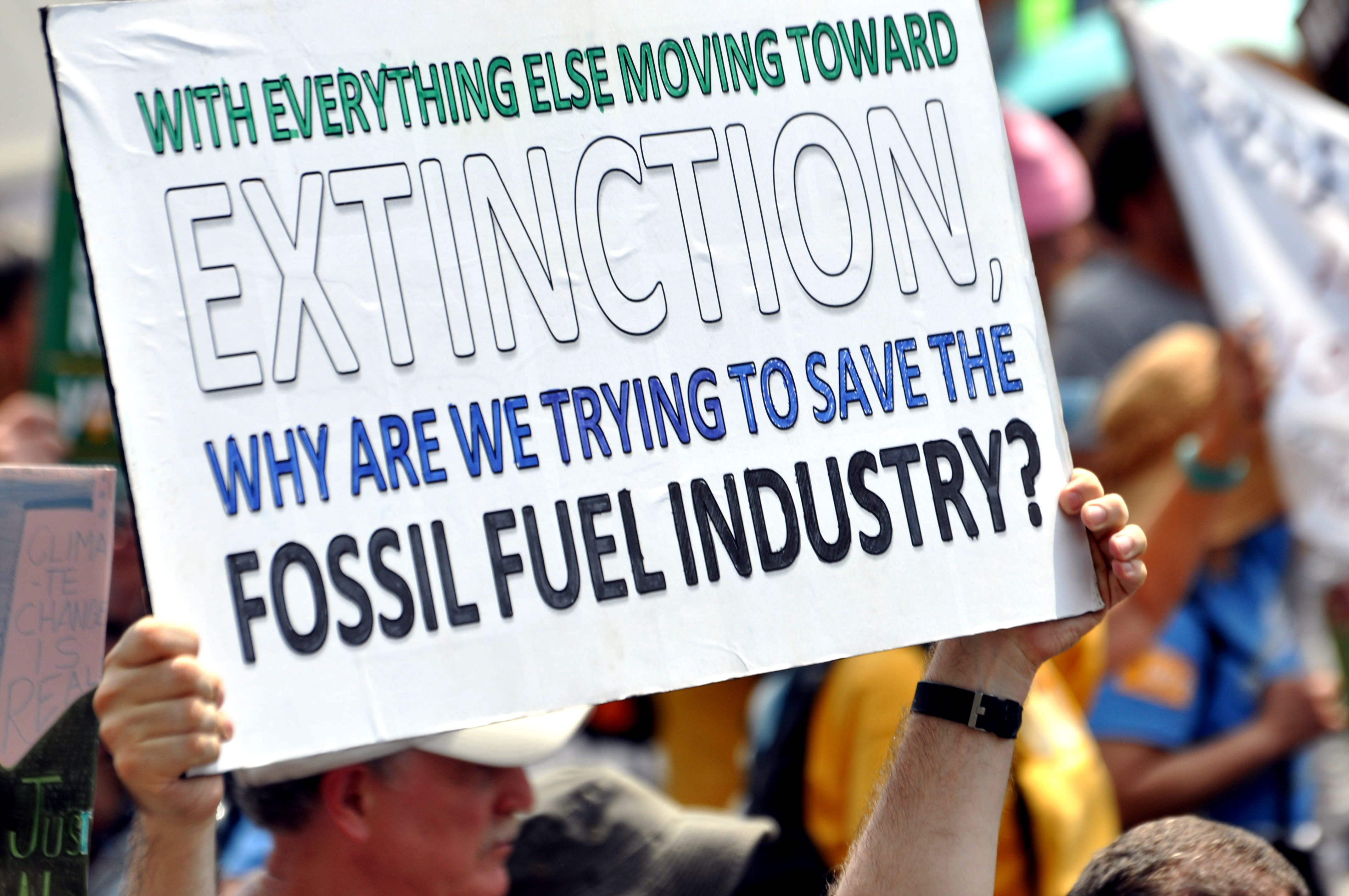 People's Climate March (2017): "With everything else moving toward extinction, why are we trying to save the fossil fuel industry?"